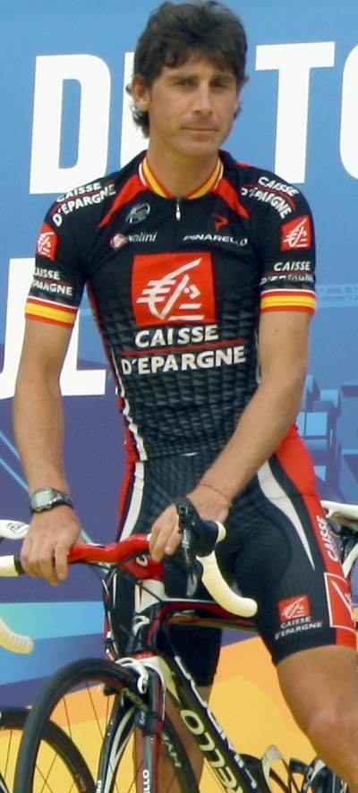 José Iván Gutiérrez at the team presentation of the 2010 Tour de France in Rotterdam